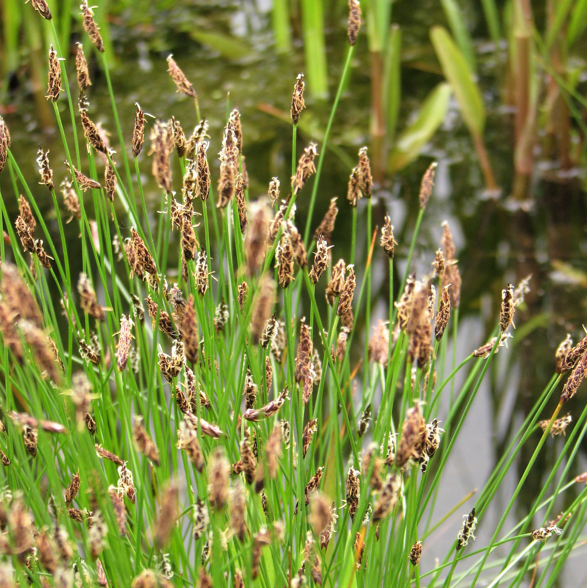 Eleocharis multicaulis, flowering, cultivated i Wrocław University Botanical Garden, Wrocław, Poland.